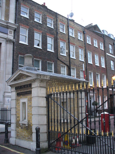 Gatehouse to Ely Place, Holborn, Central London